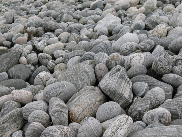 Rocks on the shore, Port Mhor Bhragair. Striped and patterned Lewisian Gneiss rocks on the foreshore.